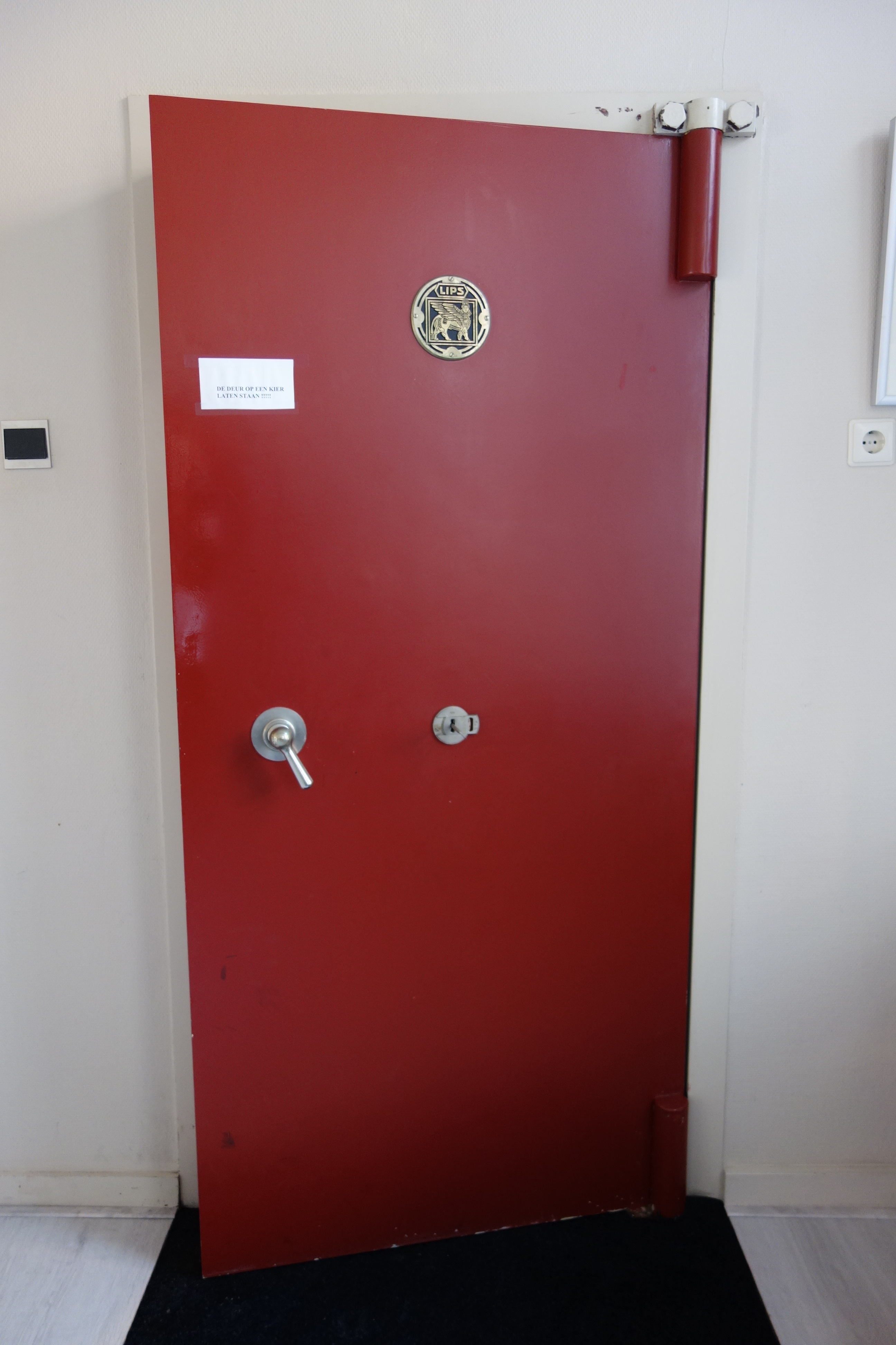 Safe door in one of the rooms on the first floor of the former town hall of Zwaag.